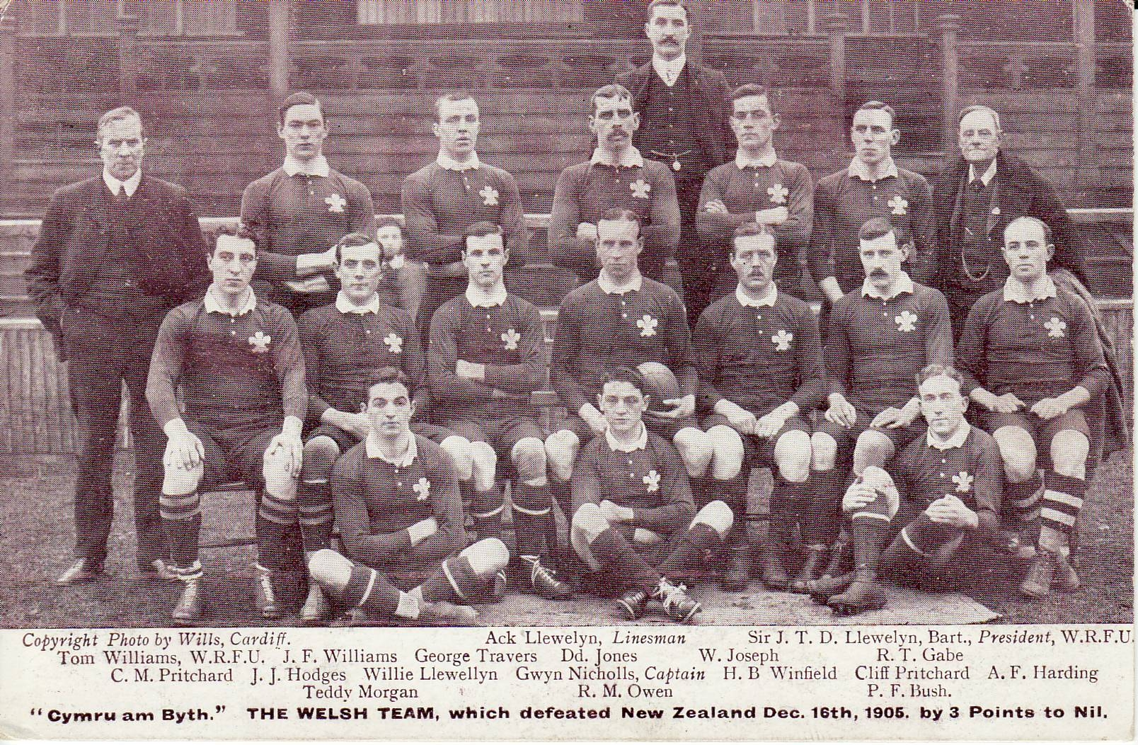 The Welsh national rugby union team that defeated the Original All Blacks in 1905.